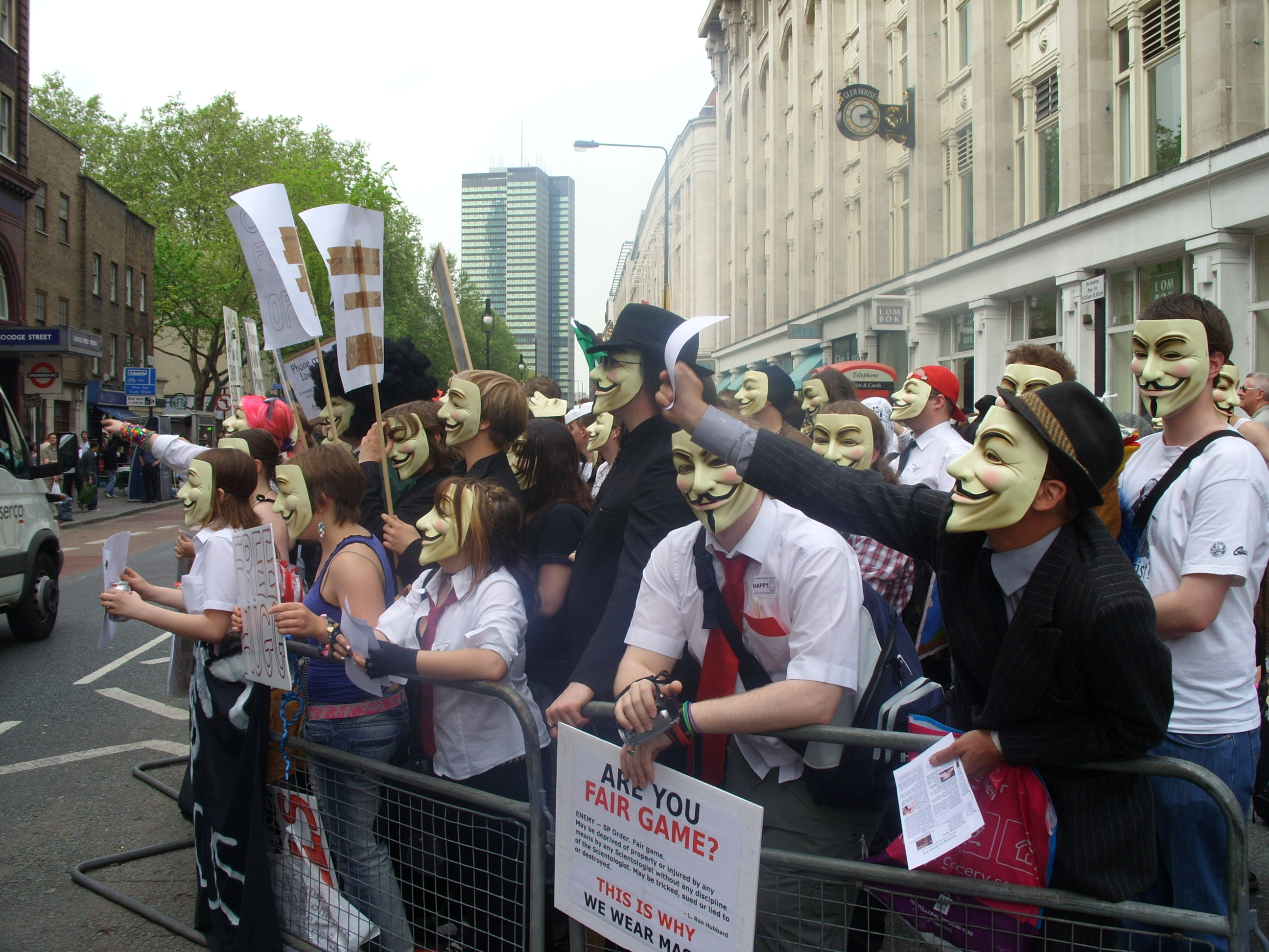 A group of Anonymous protesters opposite the London office of Scientology